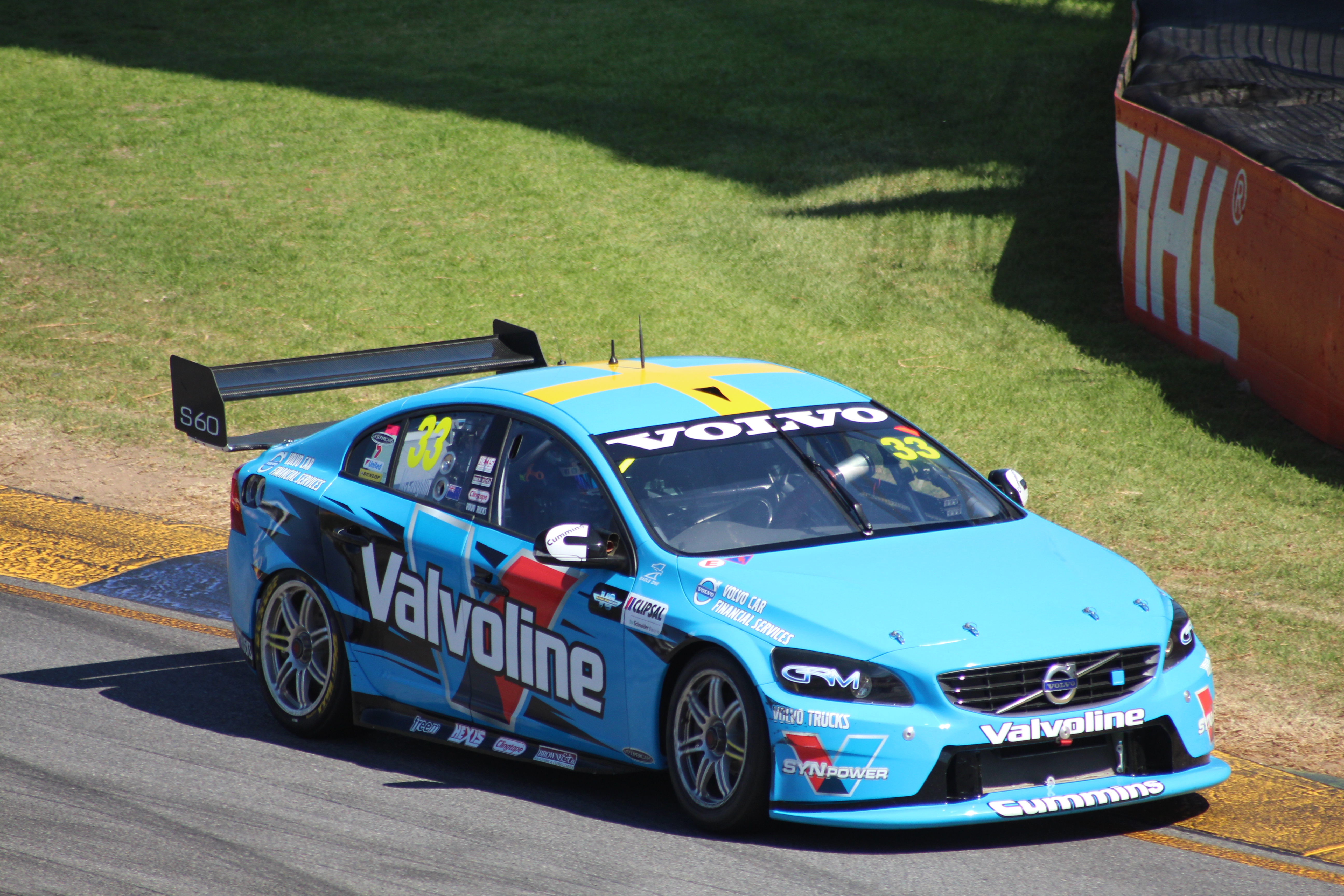 Scott McLaughlin in his Volvo S60 V8 Supercar. 2014 Clipsal 500 in Adelaide.